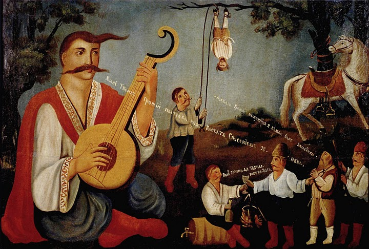 Canvas Cossack Mamay of unknown author. 19 century. Canvas, oil. 70 x 155. In the painting a banduryst is depicted at the foreground, while in the background Haidamakas are killing two Jews-usurers in the forest: one is being hung by his heels on a tree, while the other one is being brought in by his beard. The second Jew-usurer, who's being captured in the forest by Haidamakas, says to the banduryst: "Mercy, pan Mamay, I don't have a penny of money", to which banduryst gives an answer that "I need none of your money, for those like you, the only salvation is heaven!"